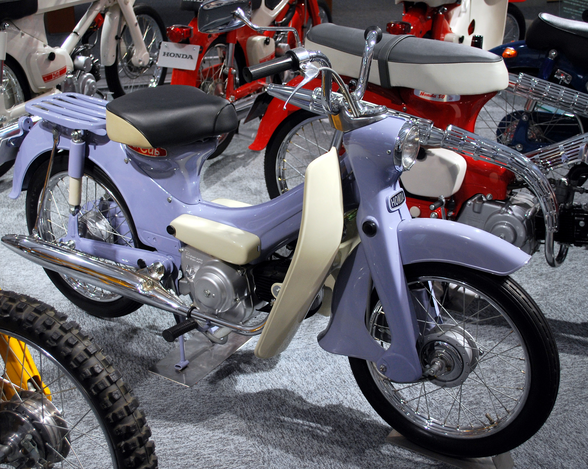 Honda Port Cub C240 (1962)